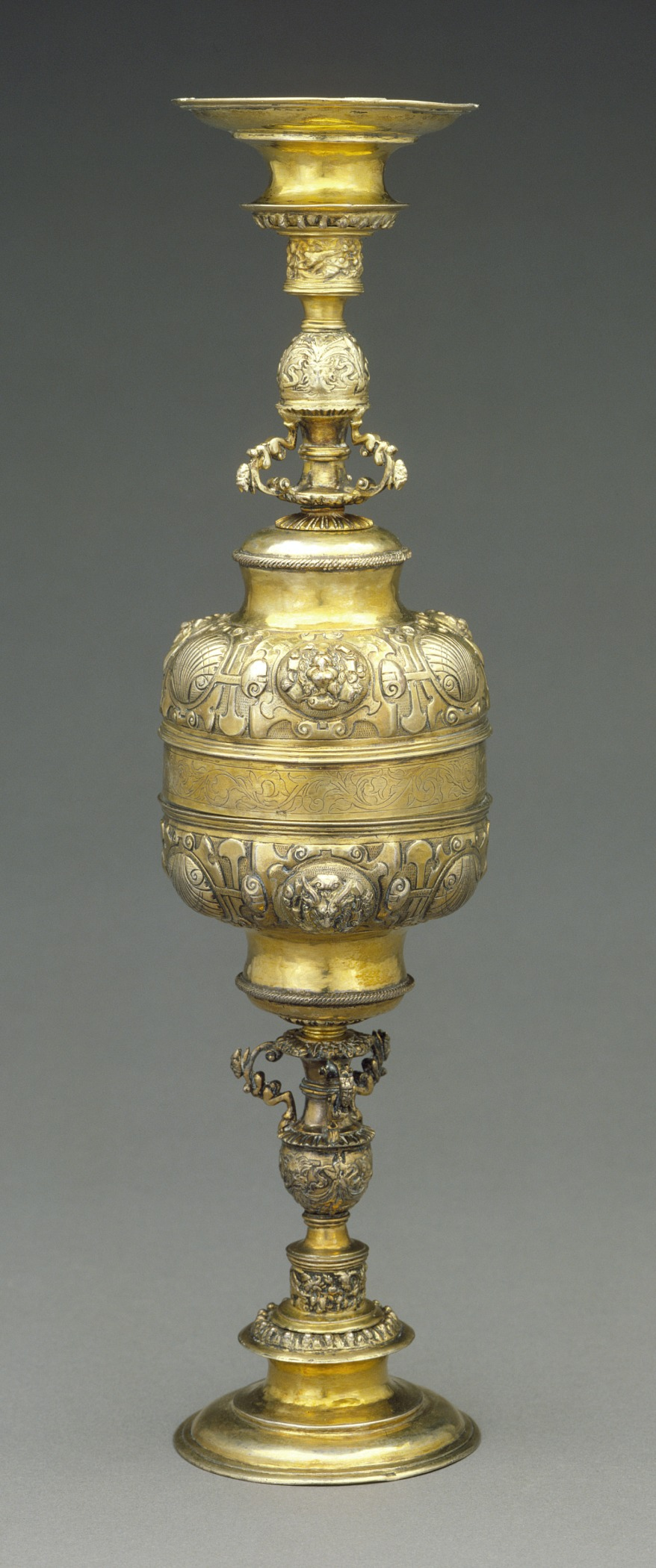 Germany, Stuttgart, circa 1600 Furnishings; Serviceware Silver gilt Height: 13 1/4 in. (33.66 cm) assembled William Randolph Hearst Collection (49.19.12a-b) Decorative Arts and Design Currently on public view: Ahmanson Building, floor 3